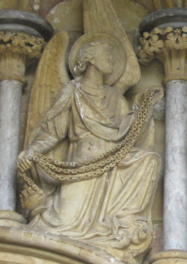 Statue of a censing angel in the porch of the West Front of Salisbury cathedral, UK